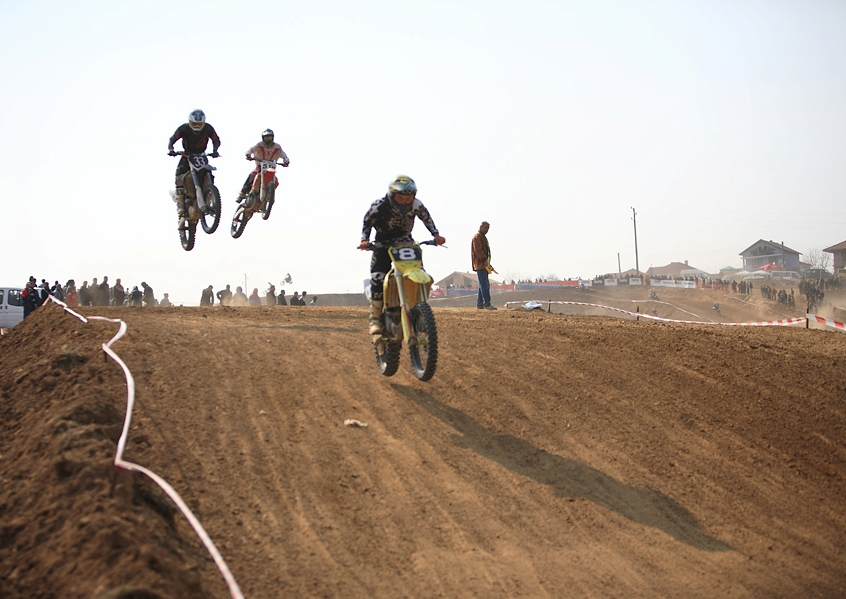 Sand track village Poroy